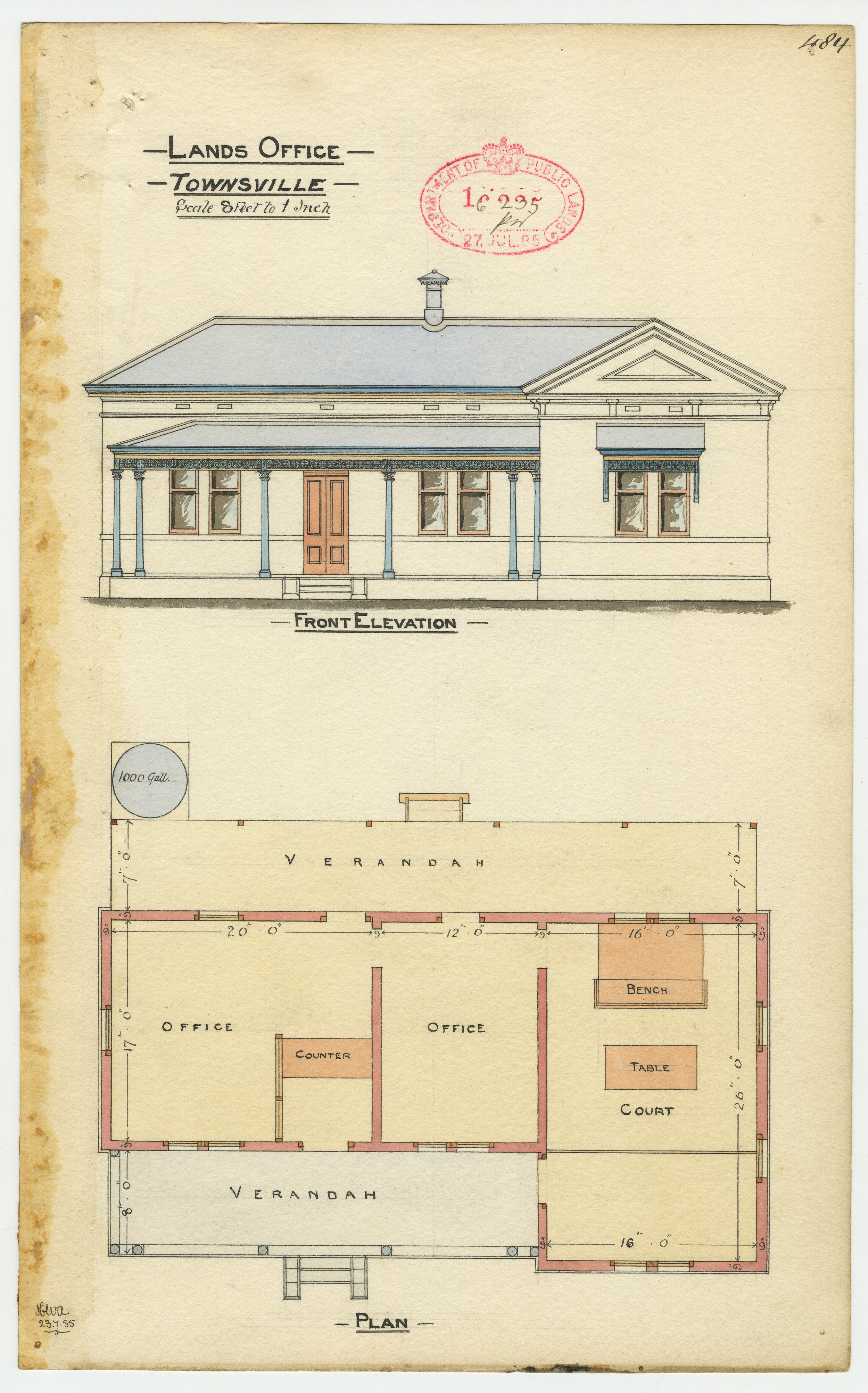 Architectural drawing of the Lands Office, Townsville, 1885